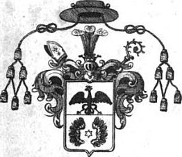 Coat of arms (shield only) of Jozef Vurum, bishop of Székesfehérvár, Hungary (1816 - 1822), bishop of Oradea Mare, Romania (1822 - 1827), bishop of Nitra, Slovakia (1827 - 1838). Title page of "Episcopatus Nitriensis eiusque praesulum memoria", published 1835. Website of Székesfehérfár Diocese uses wrong version with deer antlers